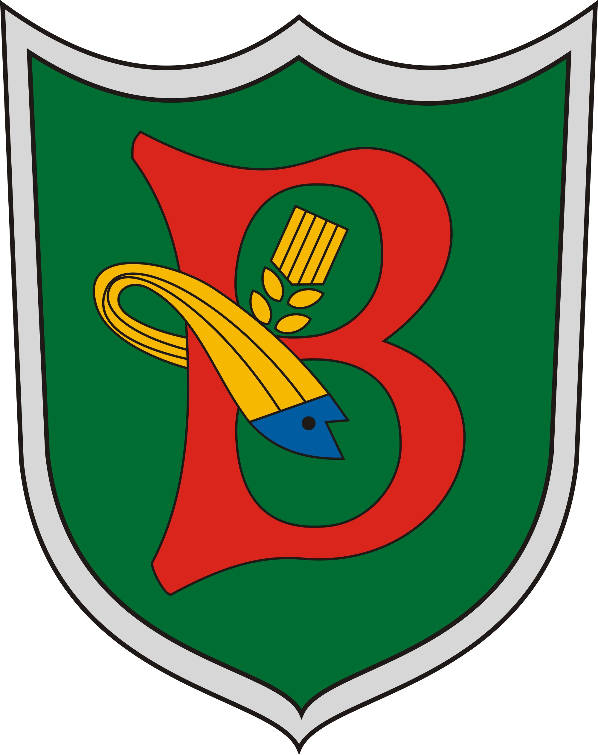 Coat of Arms of the Hungarian city Bikal